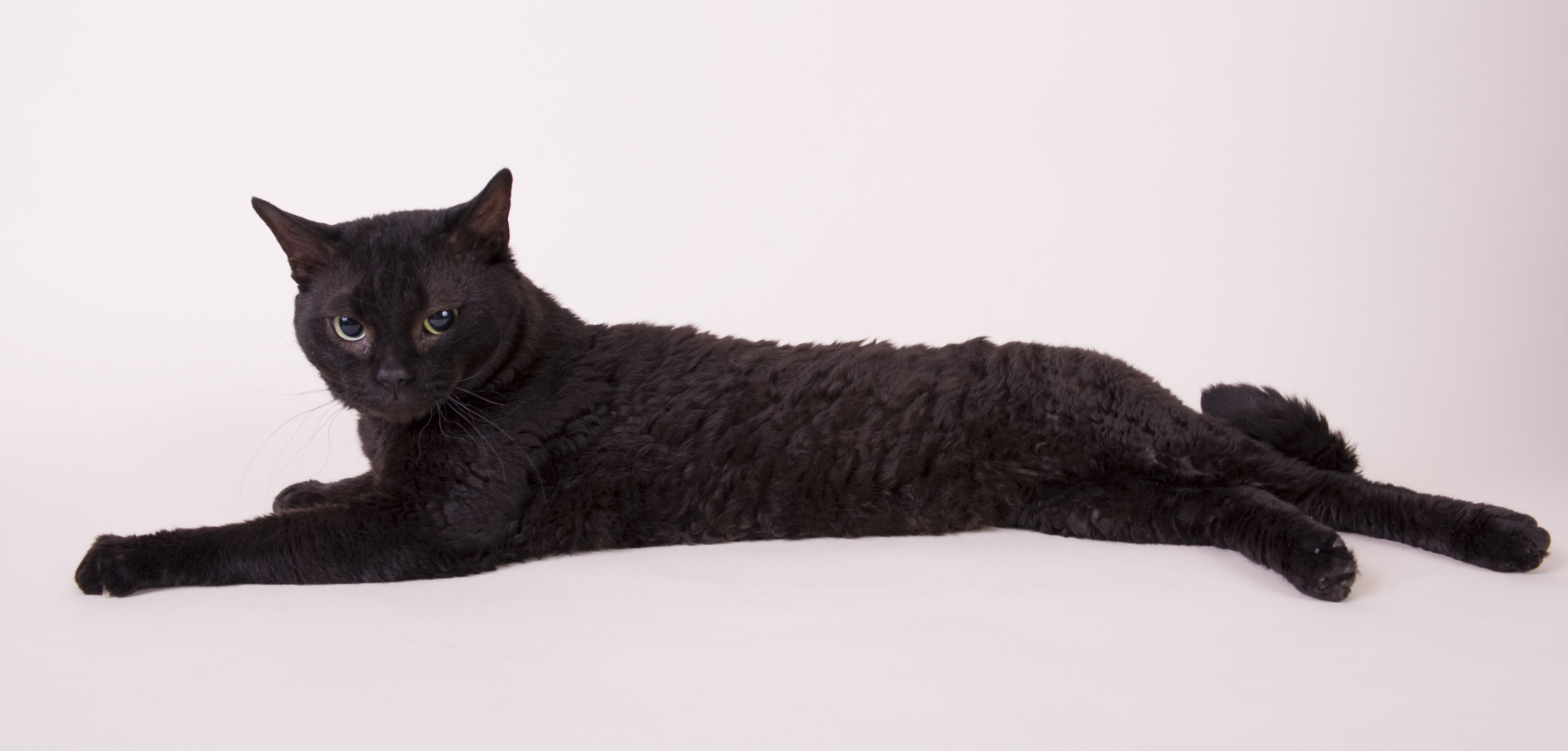 black german rex male